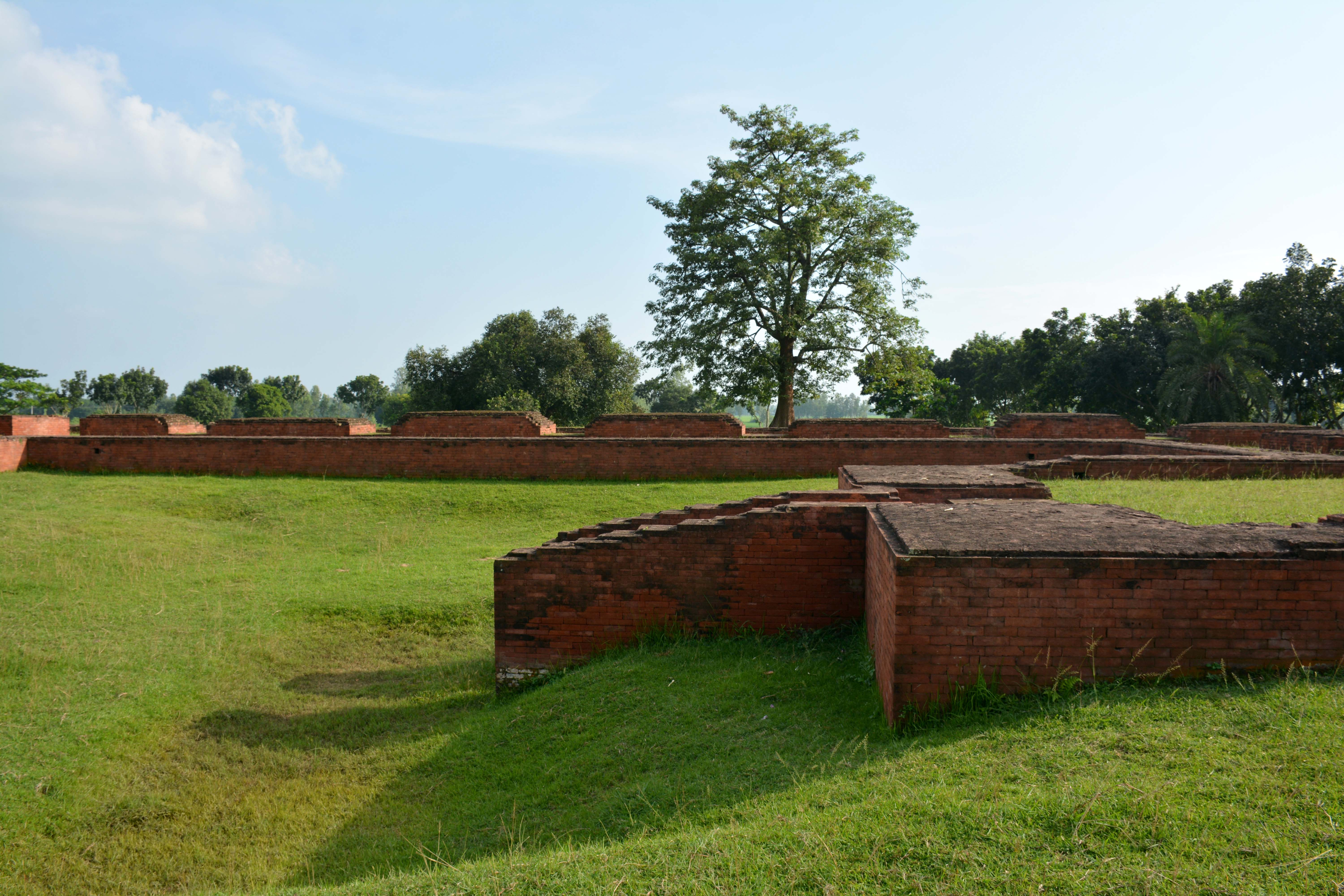 Narapatir Dhap, Vasu Bihar. It is the sign of a culture of later period (10th-11th century AD.)